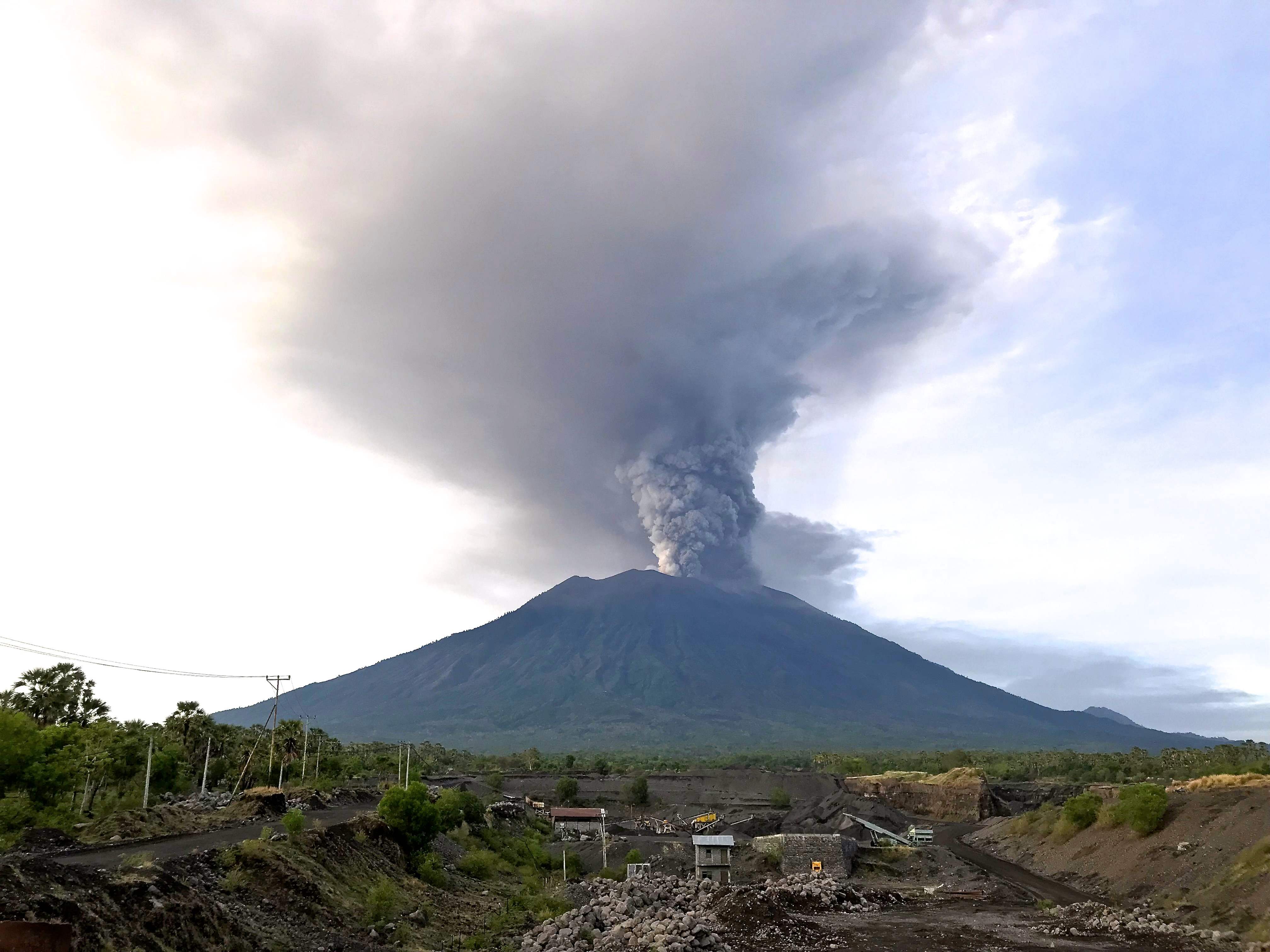 Mount Agung, November 2017 eruption - 27 Nov 2017, seen from ?